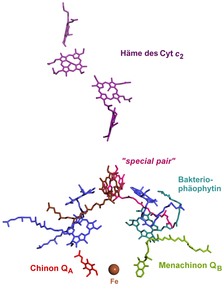 Photoreaction center of Rhodopseudomonas viridis, according to PDB 1prc. Drawn per Pymol and GIMP